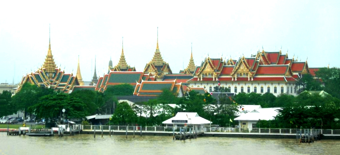 Grand Palace, Bangkok, Thailand as seen from the Chao Phraya river